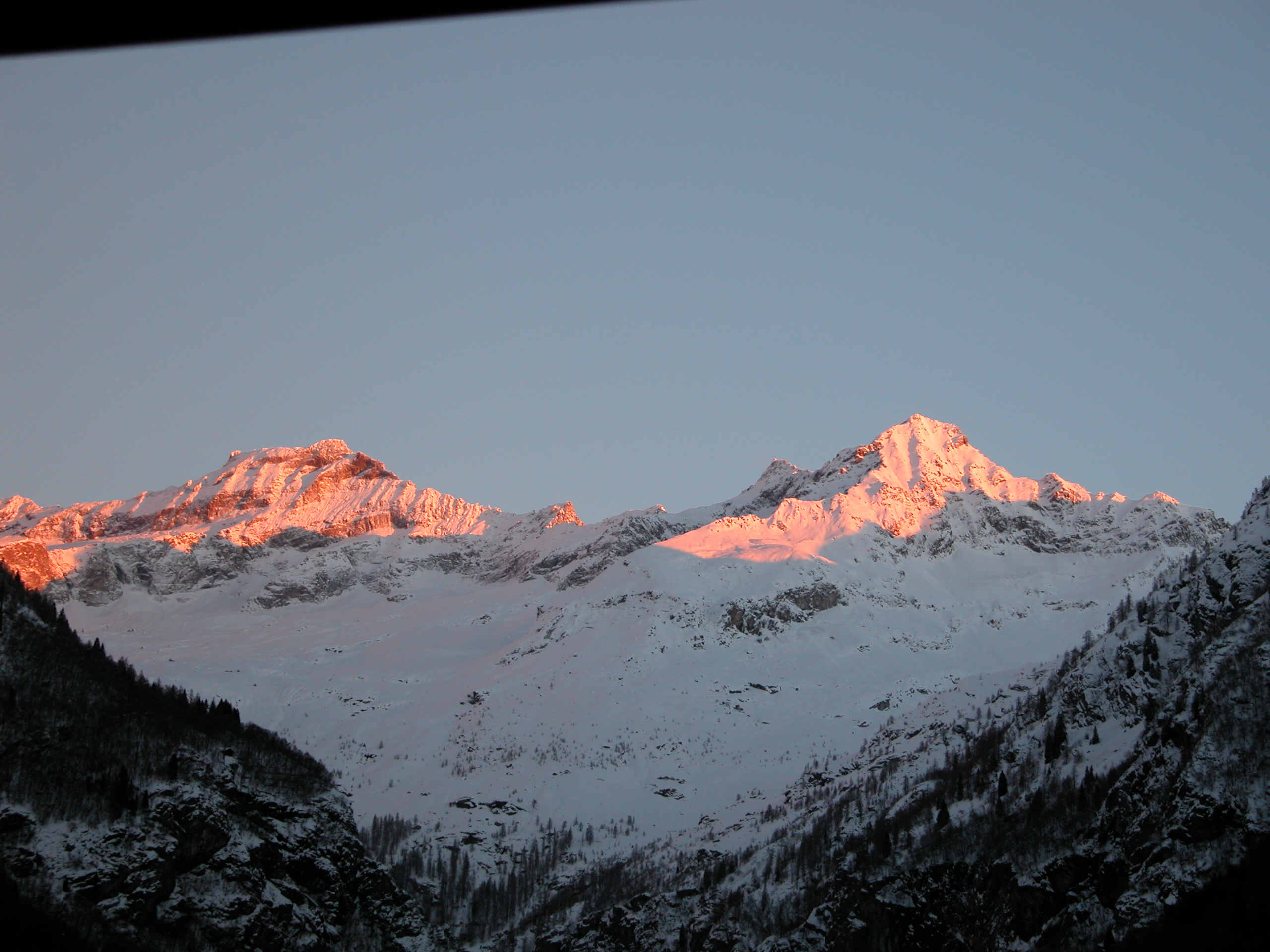 Il corno di faller da Alagna (a destra)